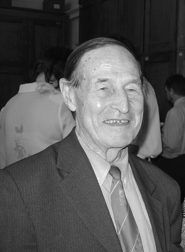 Russian botanist Nikolái Tsveliov (Nikolai Nikolaievich Tzvelev), 1925–2015)